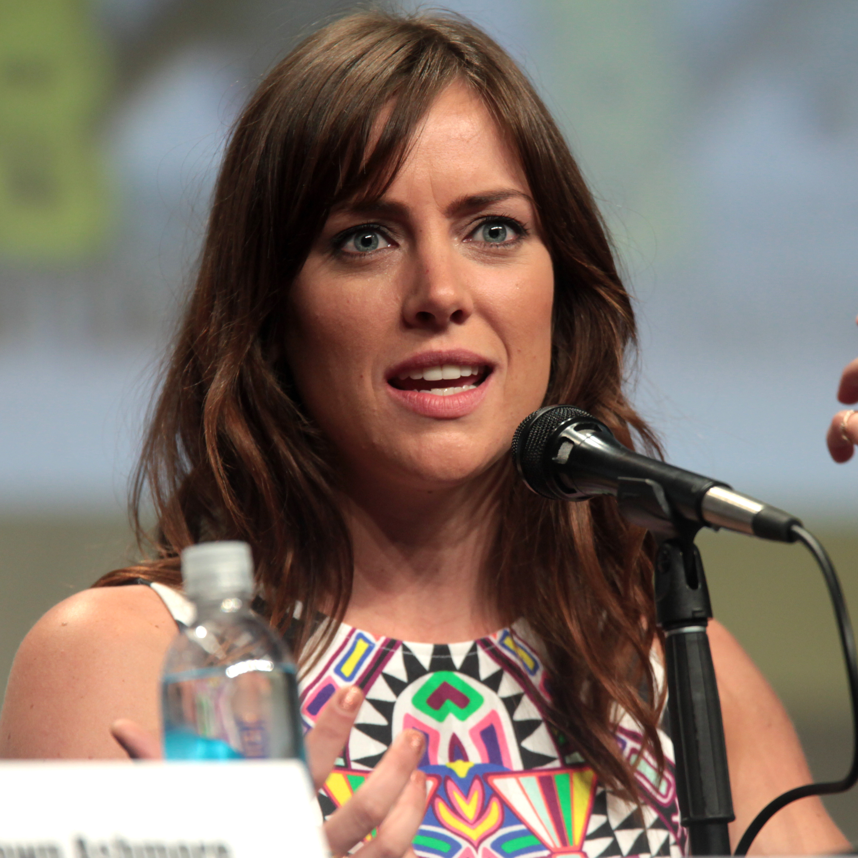 Jessica Stroup speaking at the 2014 San Diego Comic Con International, for "The Following", at the San Diego Convention Center in San Diego, California.